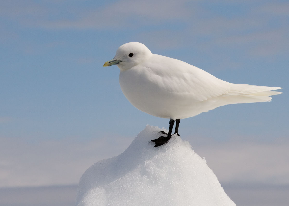 Ivory Gull (Pagophila eburnea), adult plumage.